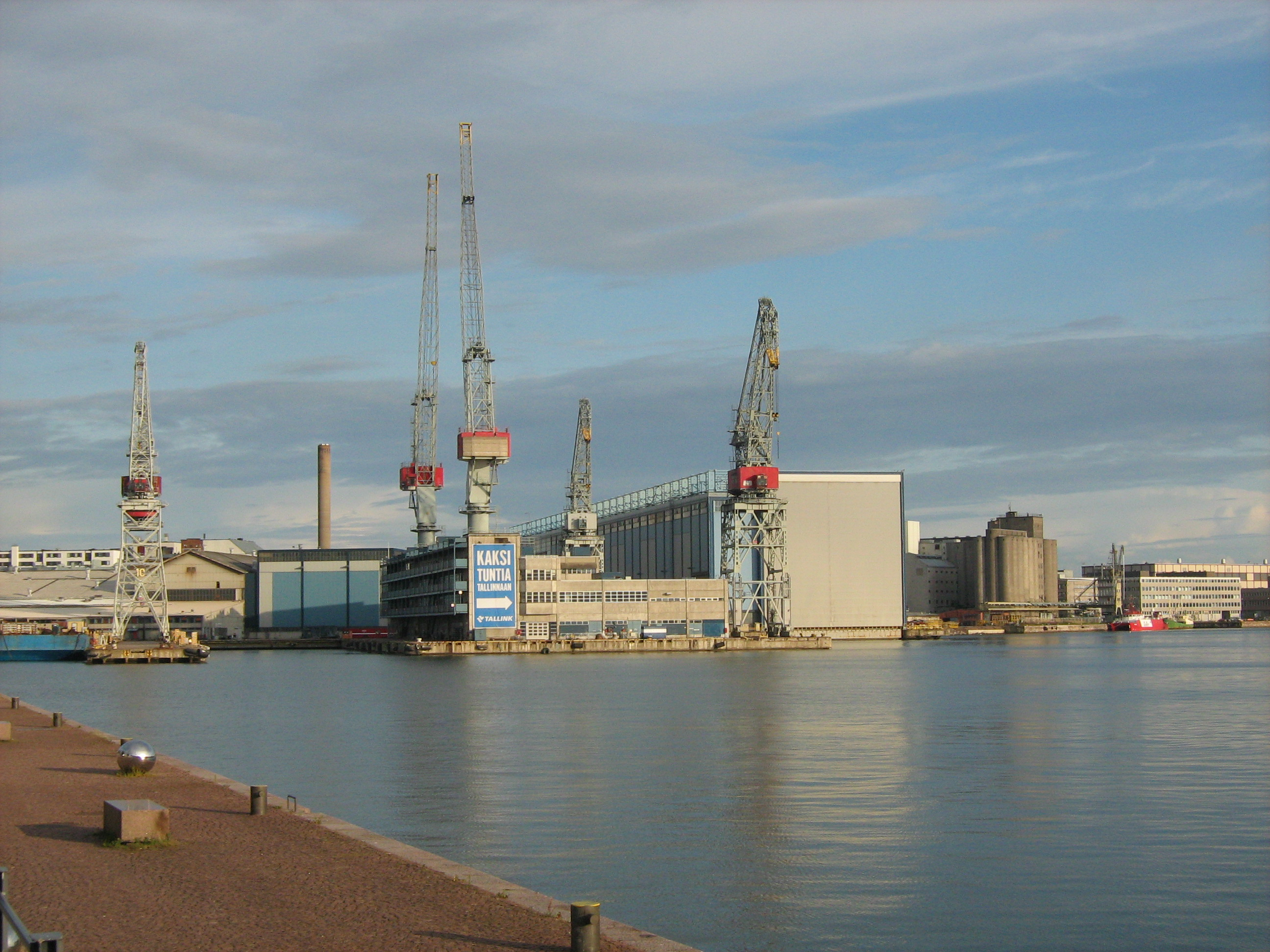 The STX Europe Helsinki shipyard photographed 2009-08-01.